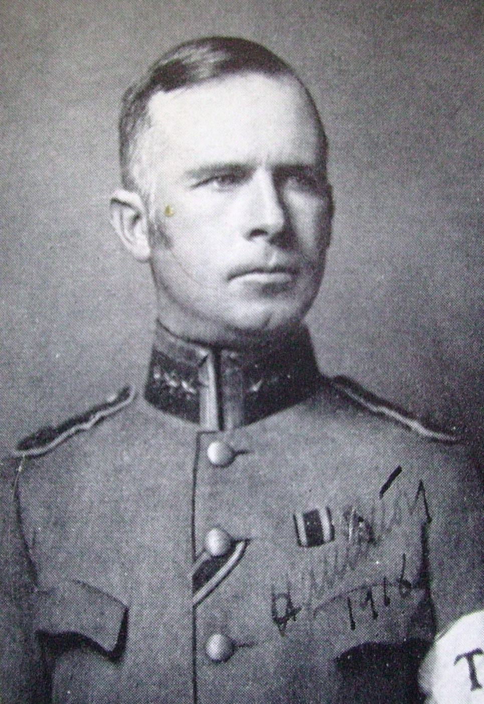 Picture of Adolf Hamilton (dead 1919), Swedish officer